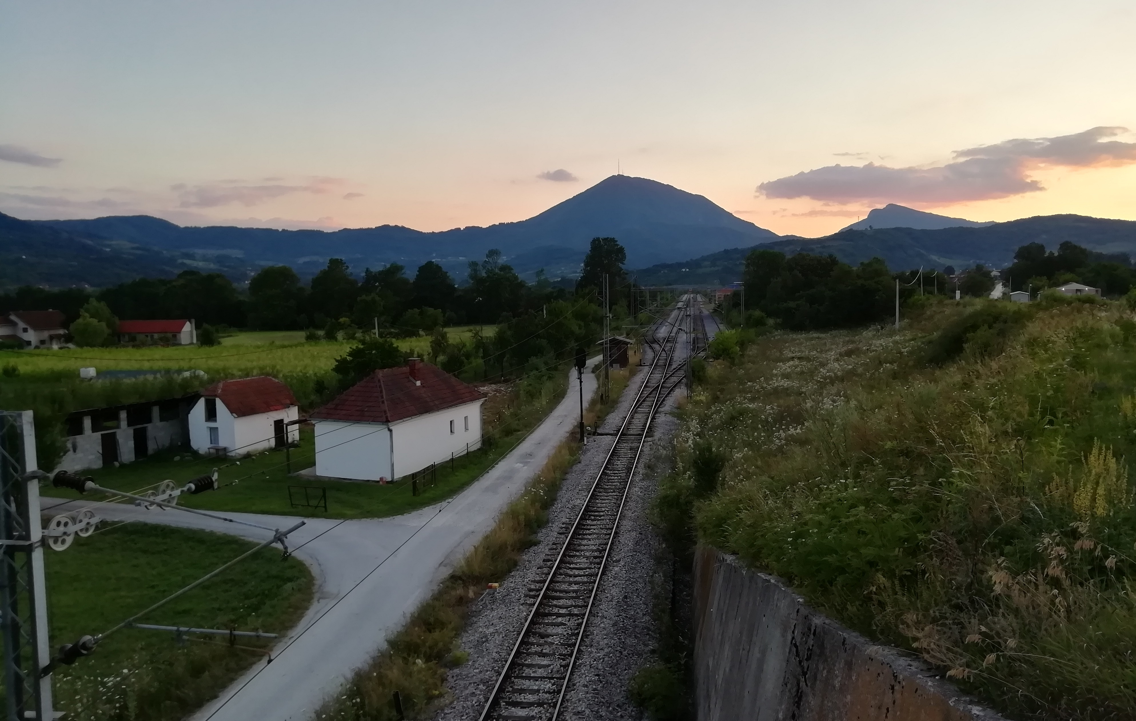 Look on railway from overpass in Prijevor, Čačak (July 2019)